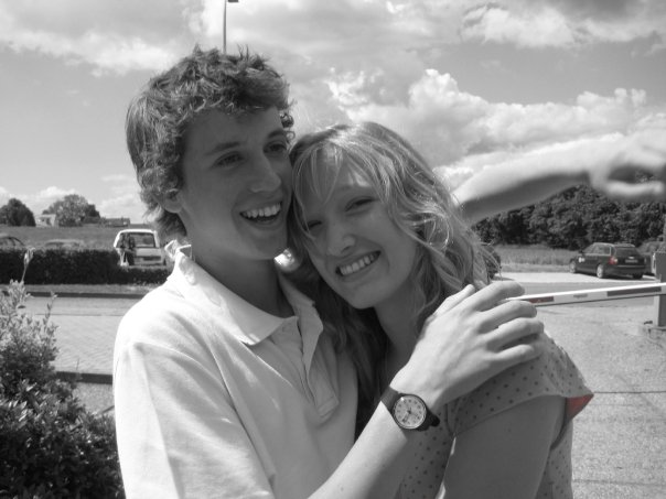 A profile picture for my SEWP account.